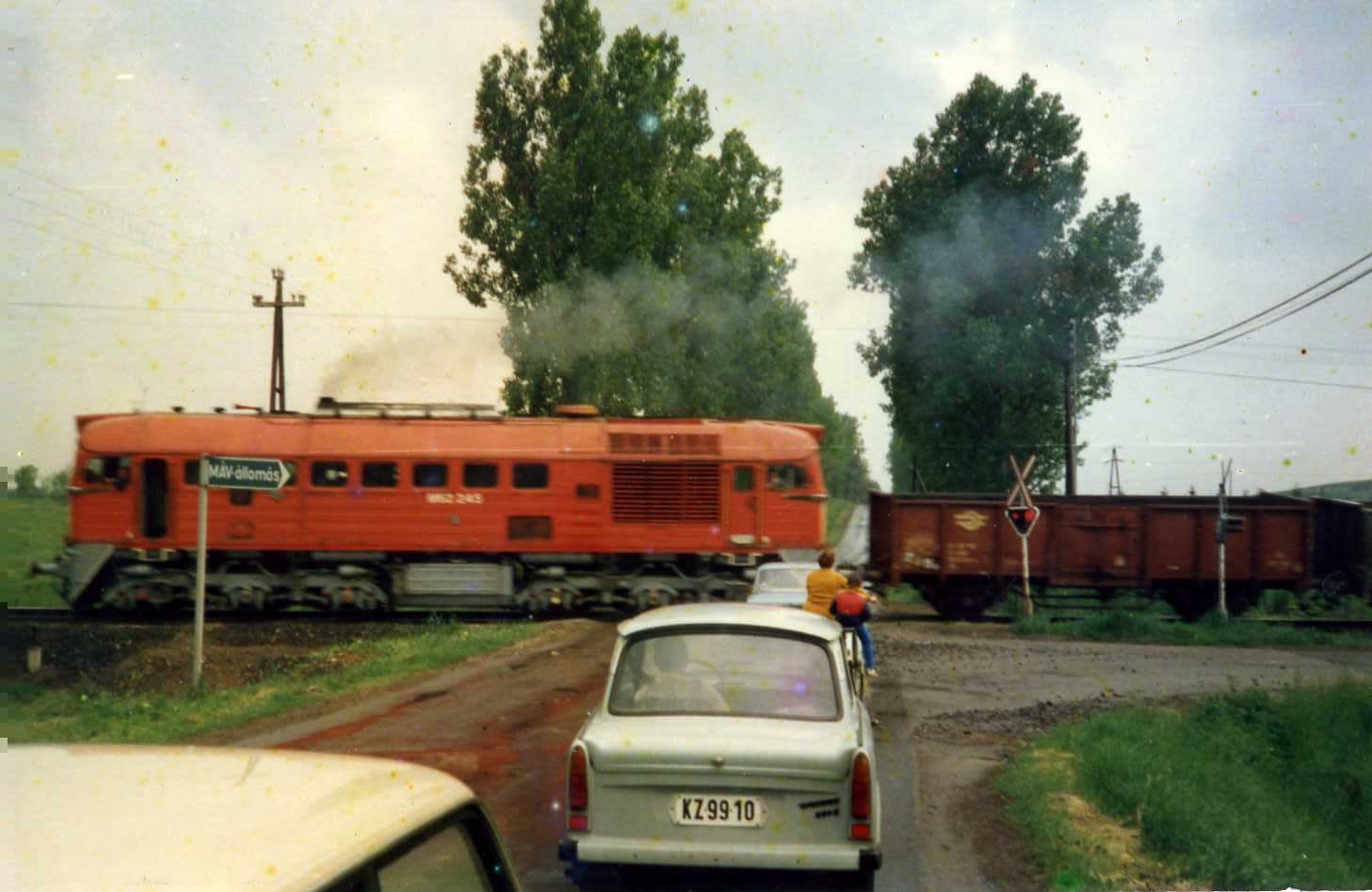 The M62 class of soviet built locomotive also found its way onto the rails of the Deutsche Reichsbahn as Class 120. The town is connected to the main railway system by this line up the Bódva valley. The green sign is pointing to a (small)railway station, Photographic negative damaged by water. Thanks to @gerisz for correct identification of the moving loco's number. A chance shot on a cycle tour.